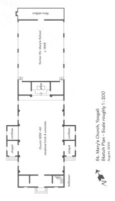 Our Lady of Pompeii Roman Catholic Church, Yoogali: Sketch Plan